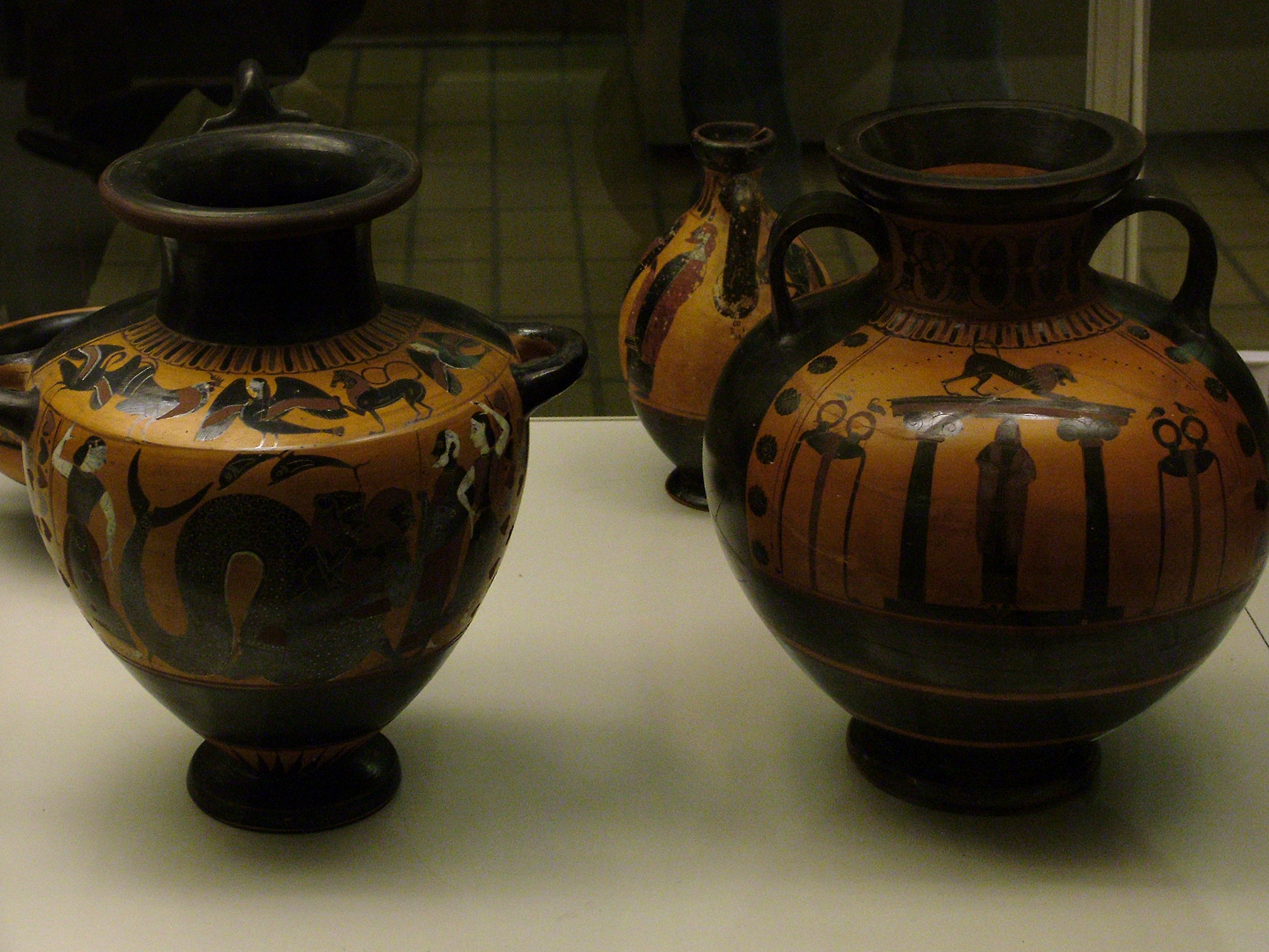 Attic black-figure pottery in the British Museum. Left: hydria (c.560–540 BC) showing, on the body, combat between Heracles and Triton, and on the shoulder, a frieze of animals and sirens. GR 1856,1226.31. Right: amphora (c.560 BC), decorated with a painting of a god, probably Apollo, in a temple; there is a lion on the architrave of the temple, and a tripod on either side. GR 1856,0512.10